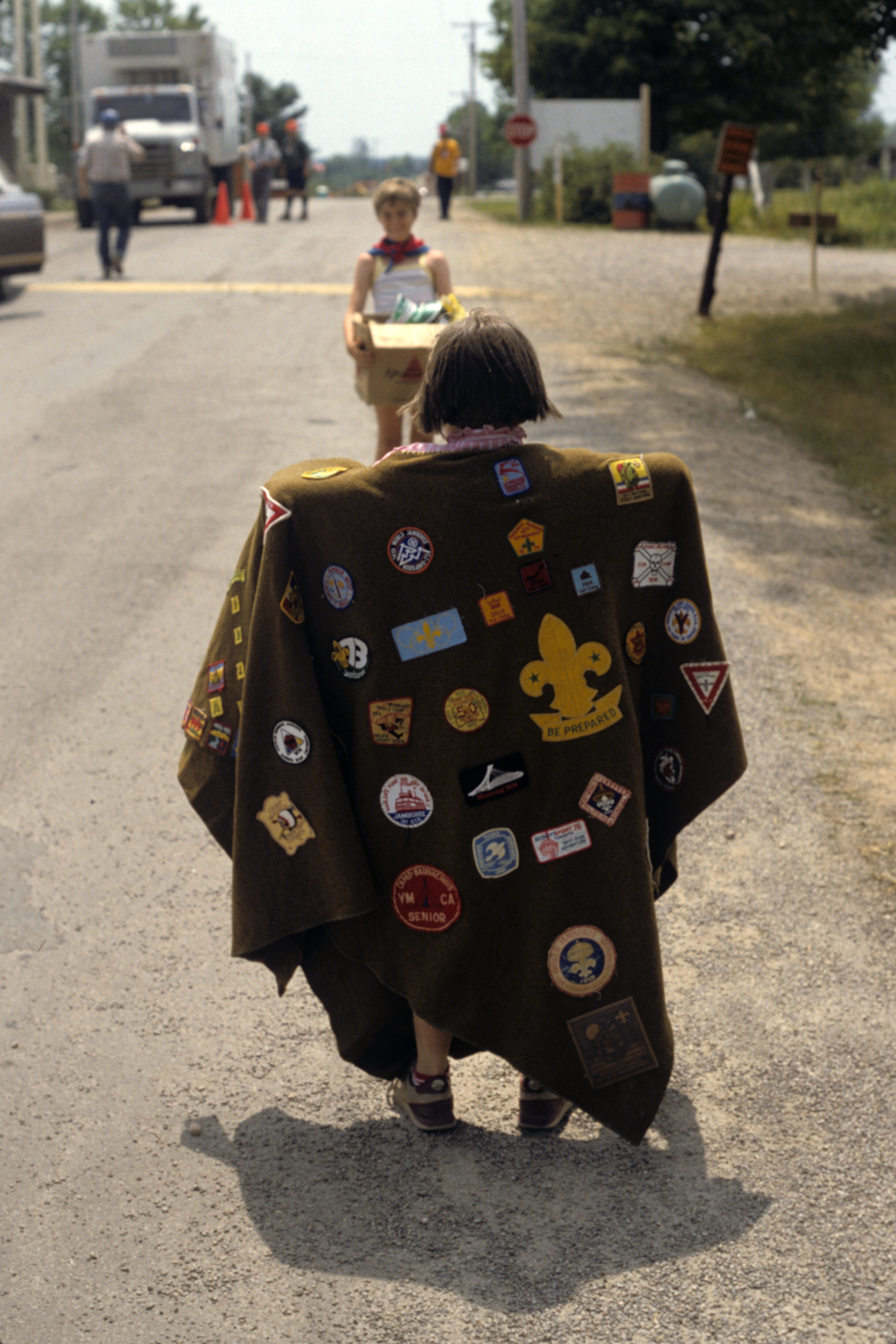 Scouts Canada, Toronto contingent to the 4th Pentathlon Jamboree Fredericton New Brunswick. User:WayneRay and Harry Gatley, Quartermasters for the Jamboree. Badges collected in New Brunswick at the Jamboree